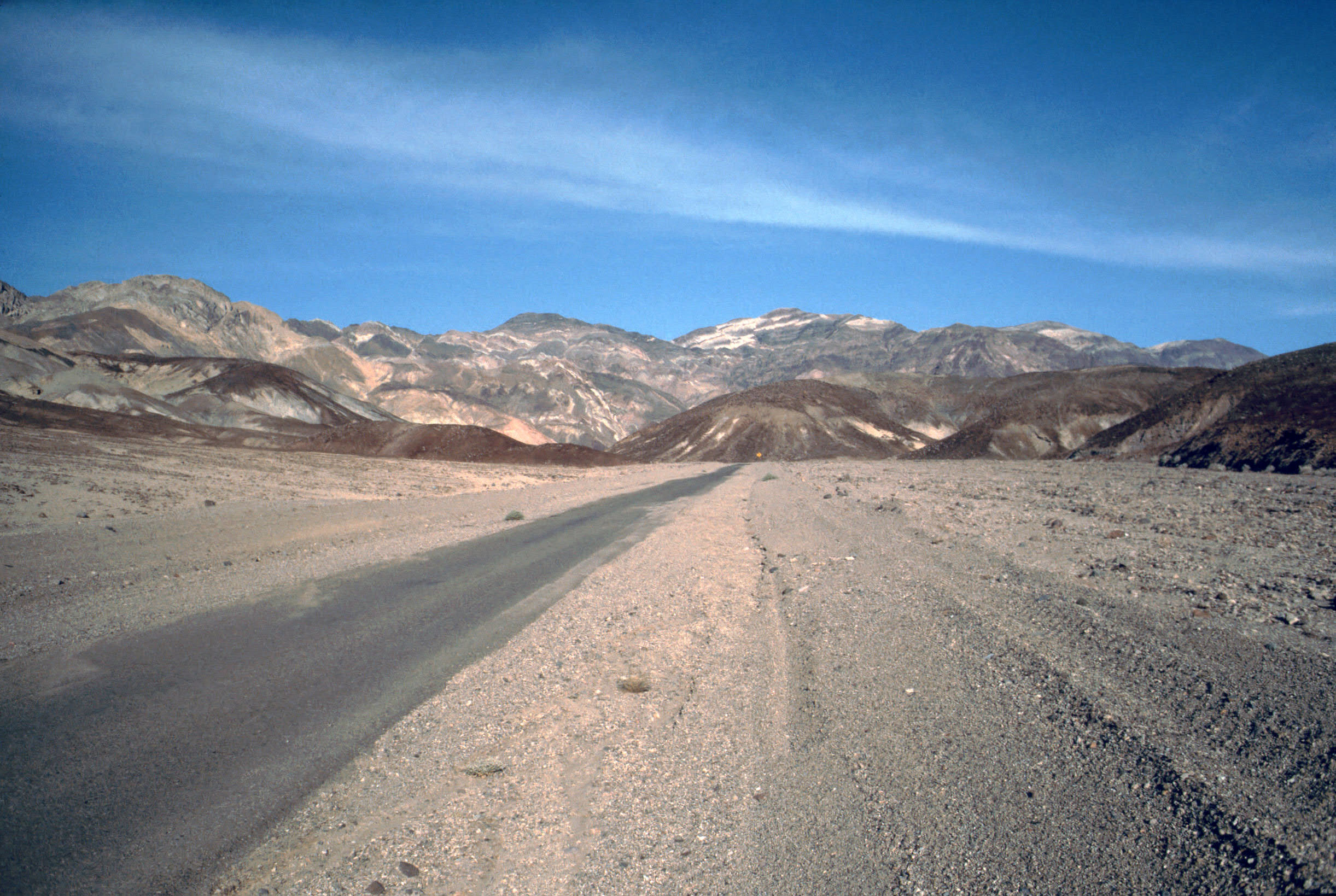 Death Valley,Twenty Mule Team Canyon